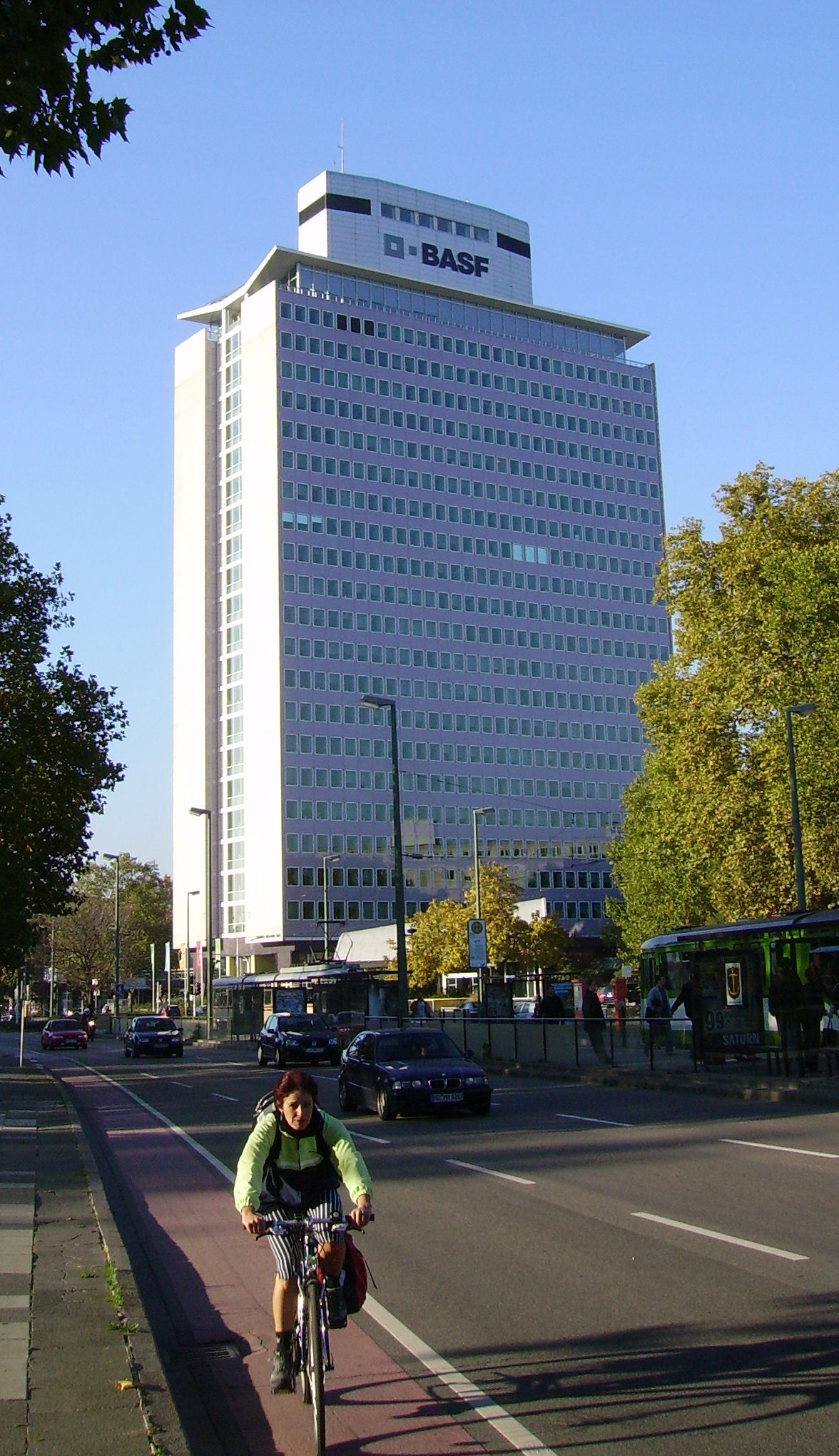 Friedrich-Engelhorn-Hochhaus, headquarter of the Germany BASF (chemical) company